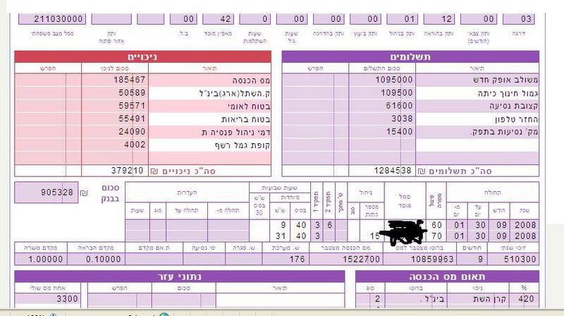 paycheck